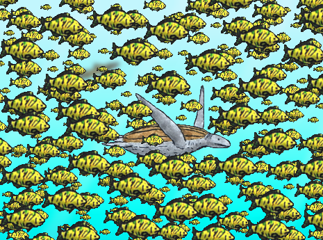 Protosphargis, an extinct genus of leatherback seaturtle, swims in the middle of a large group of Caproberyx. This is a scene from the Late-Cretaceous of Italy.